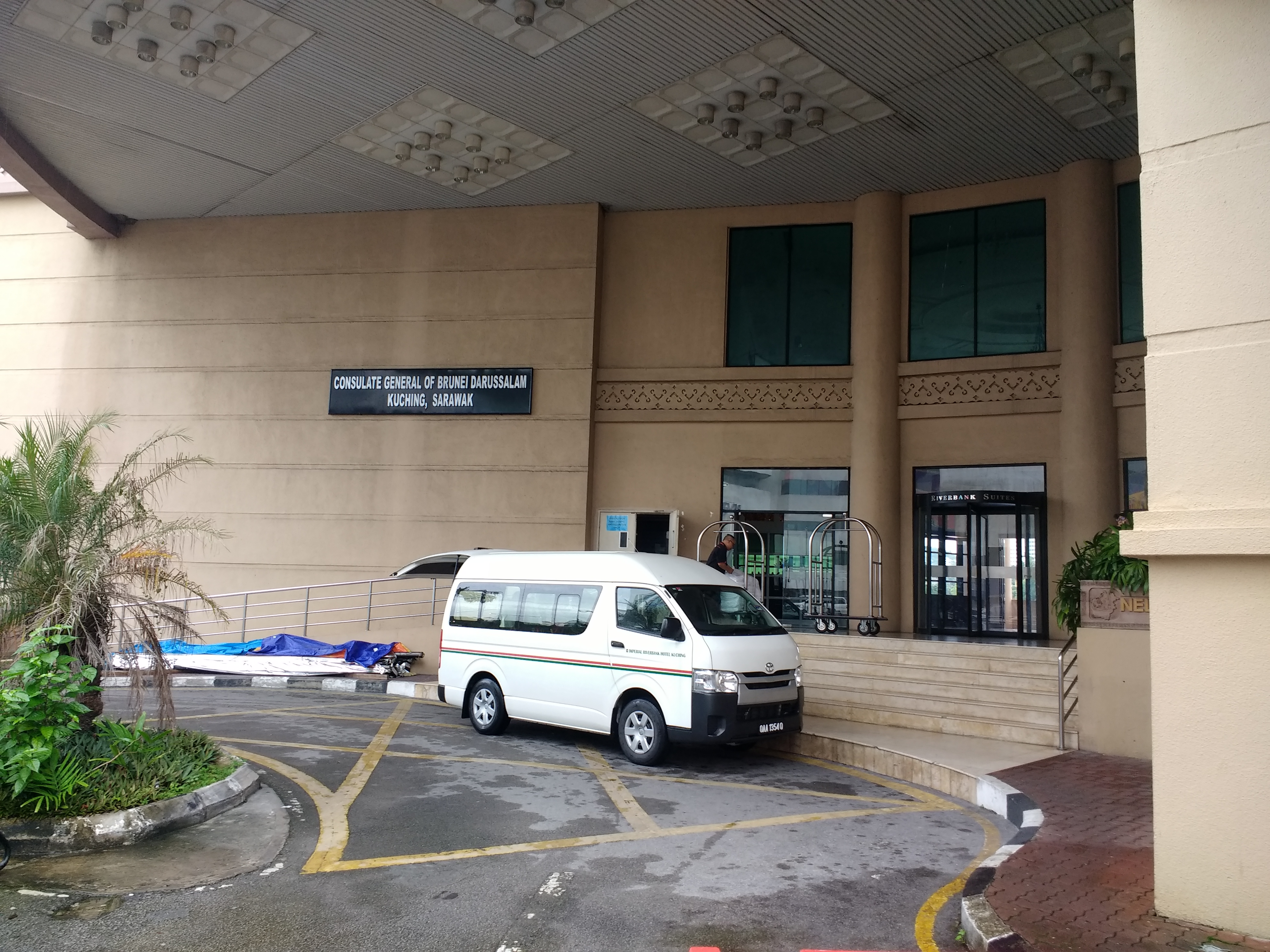 Outside of the Consulate General of Brunei Darussalam, Kuching, Sarawak. Located in the Riverbank Suites.